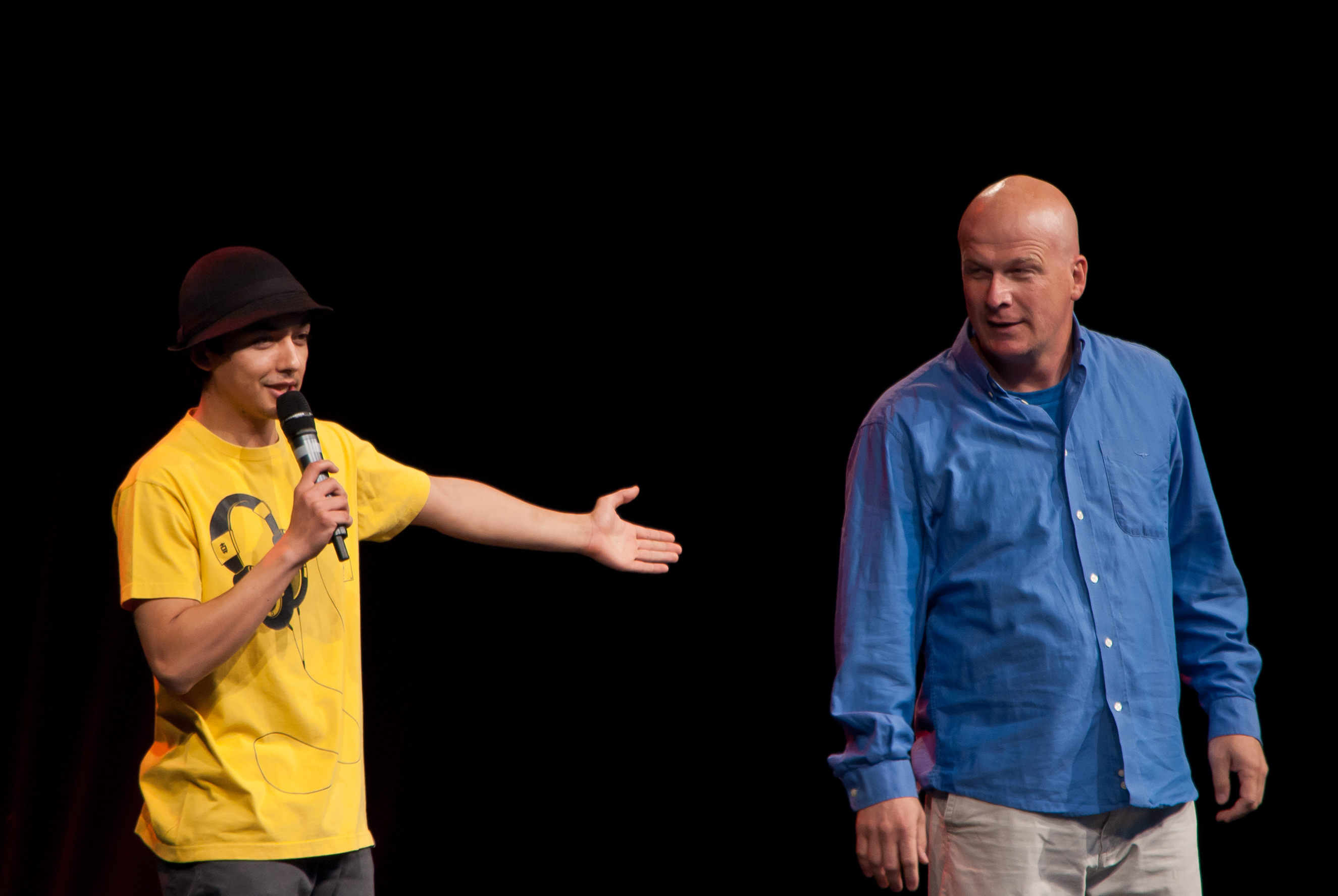 The comedy duo KaiRo, consisting of the beatboxer Robeat (Robert Wolf) and the popping movement artist Kai Eikermann, presenting themselves at 36th International Comedy Arts Festival in Moers (North Rhine-Westphalia, Germany) This photograph was taken with a Nikon D3000